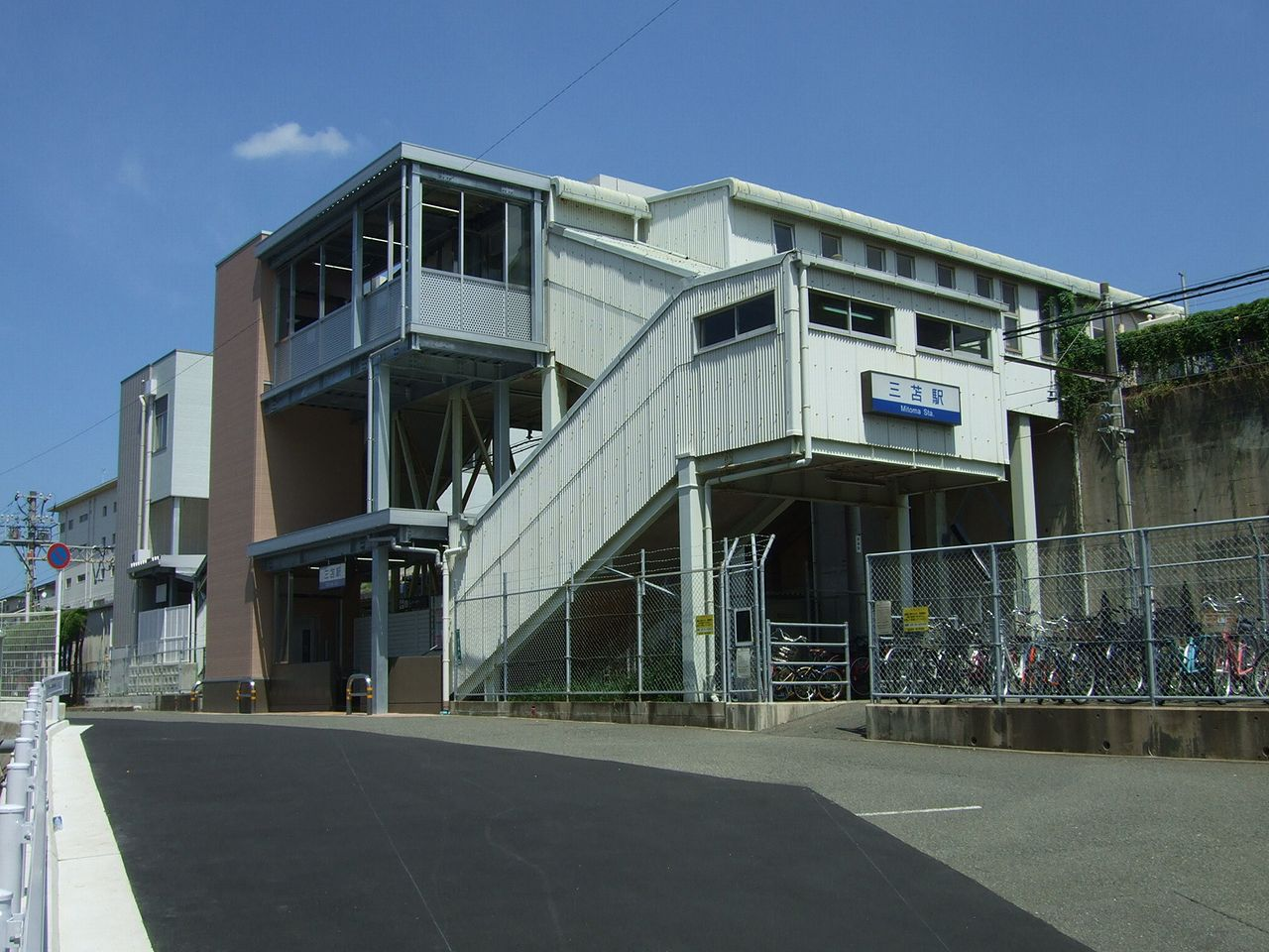 Nishitetsu Kaizuka Line Mitoma Station(west side), Higashi Ward, Fukuoka City, Fukuoka, Japan.